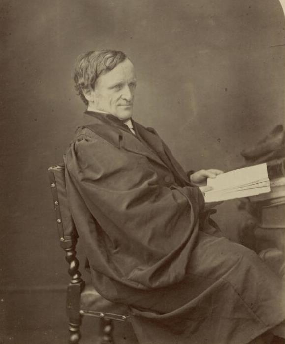 A portrait from the Welsh Portrait Collection at the National Library of Wales. Depicted person: Rowland Williams – Welsh theologian